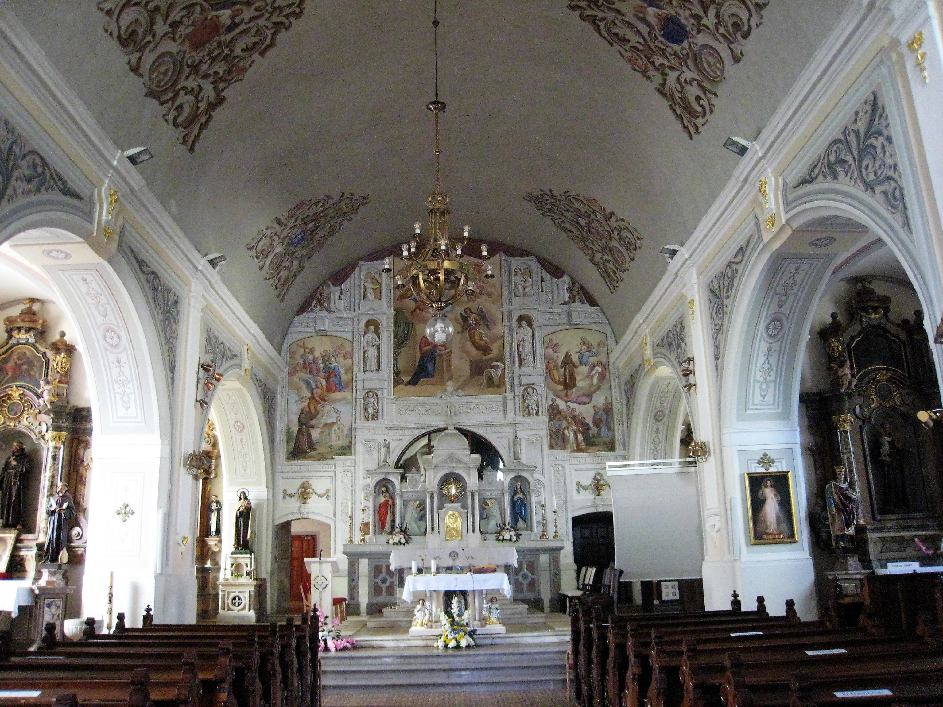 Annunciation Parish Church (Nazarje): The inside of the nave